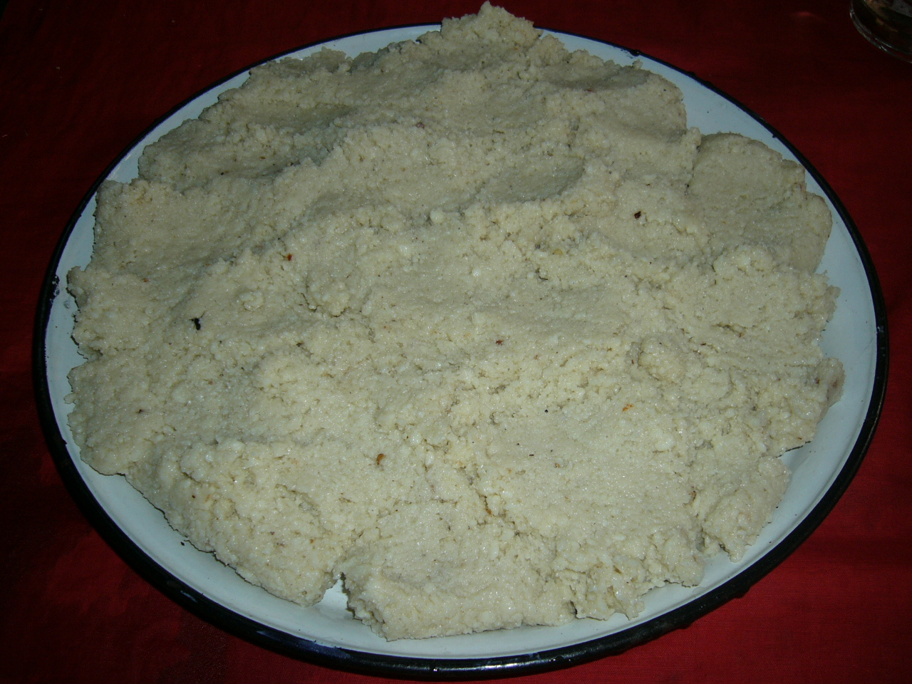 Natore, A District of Bangladesh Authour Shahnoor Habib Munmun